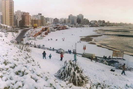 The snow covers La Perla beach, Mar del Plata, Argentina.